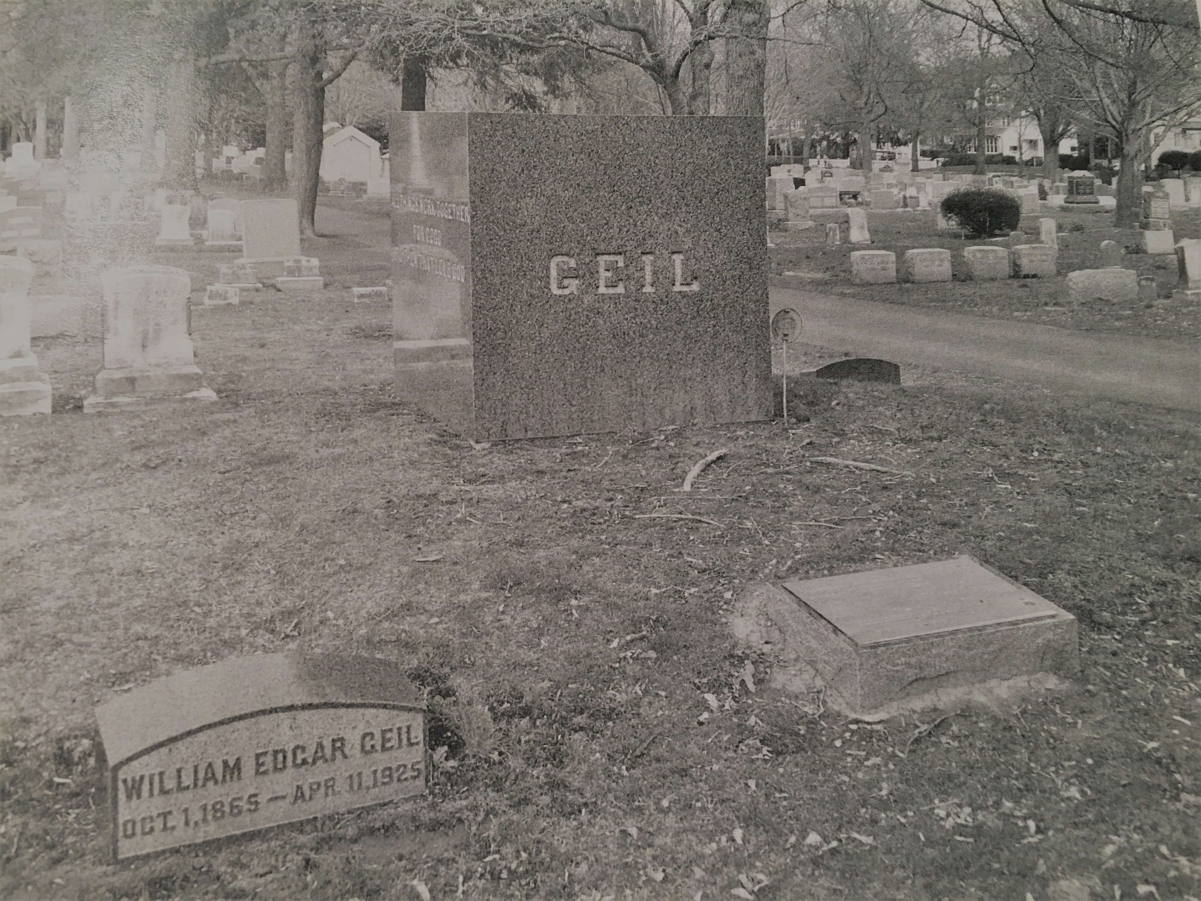 Dr. Geil's Grave site located at Doylestown Cemetery